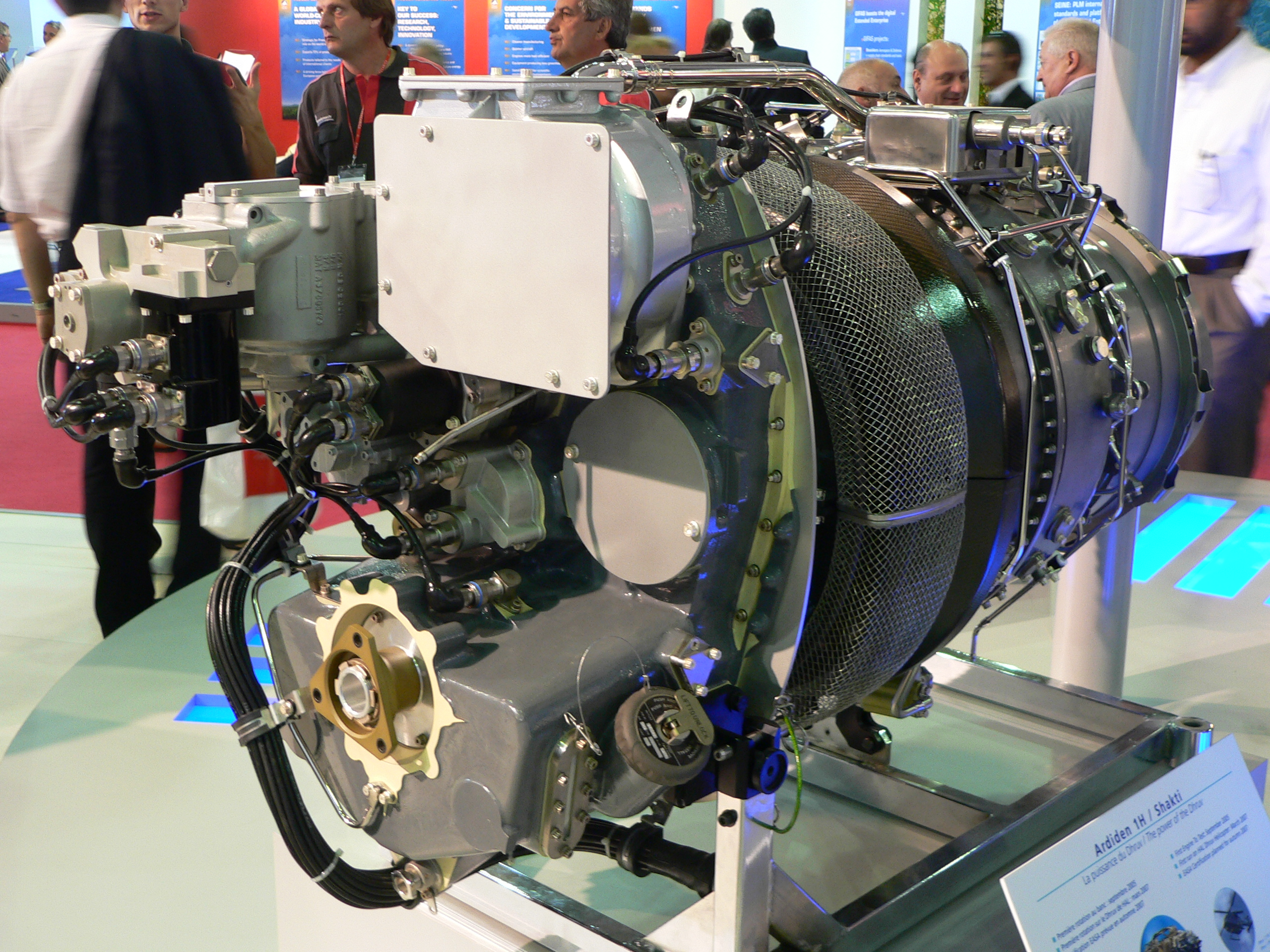 Turbomeca Ardiden 1H / Shakti (used in the HAL Dhruv helicopter)